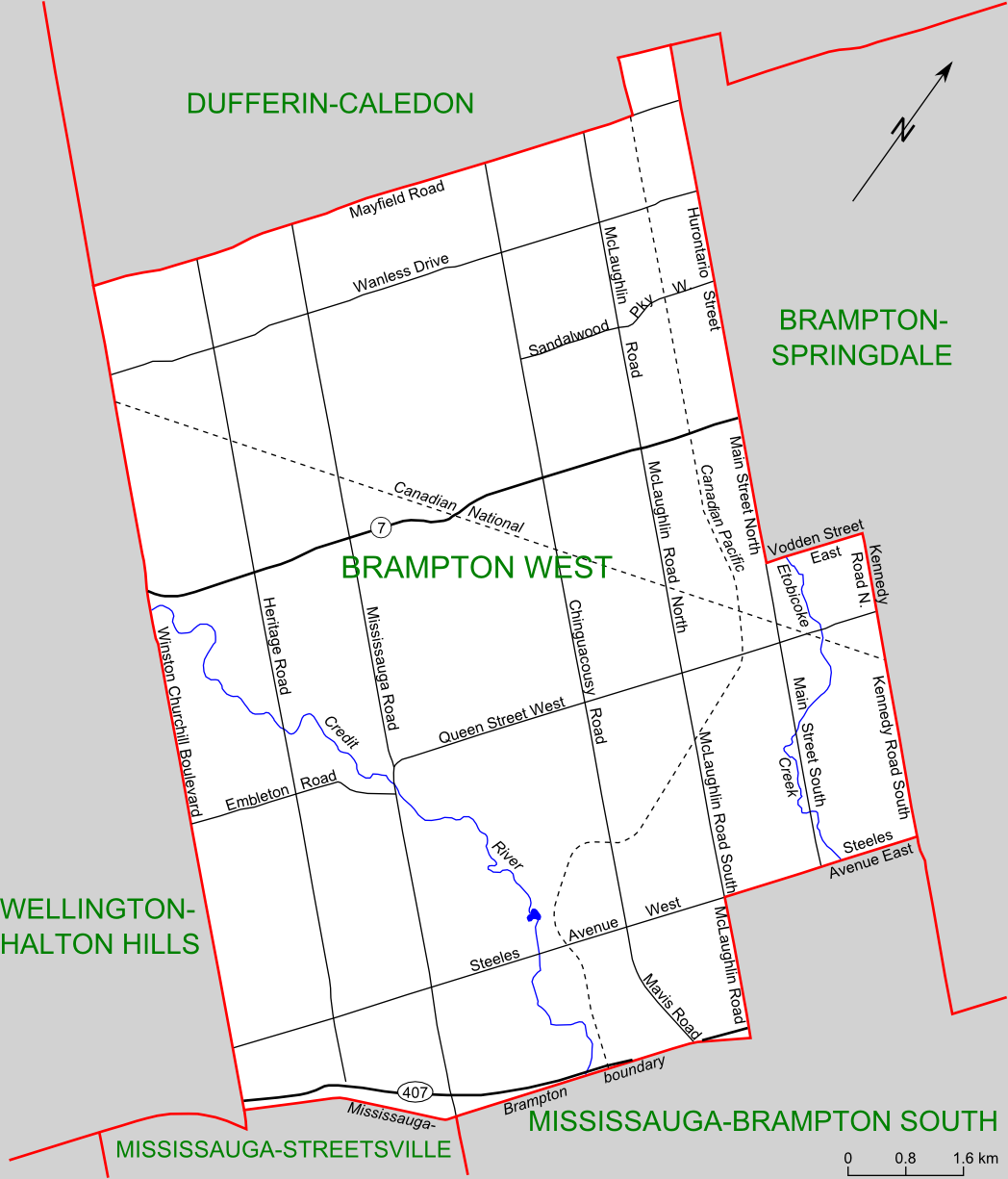 Map of the Ontario federal and provincial riding of Brampton West (boundaries defined in 2003, adopted federally in 2004 and provincially in 2007).